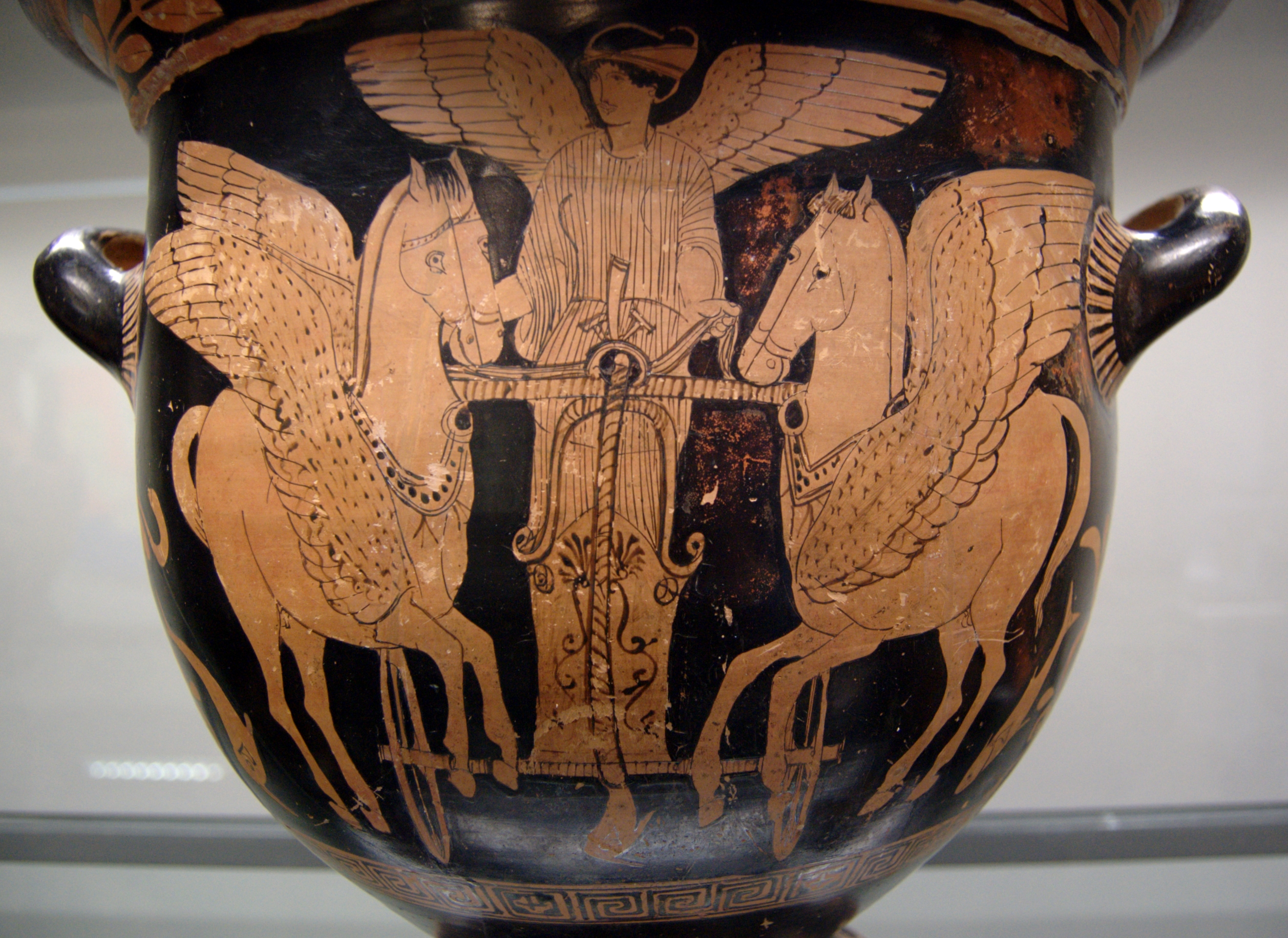 Eos in her chariot flying over the sea (dolphin left and fish right). Red-figure krater from South Italy, 430–420 BC.